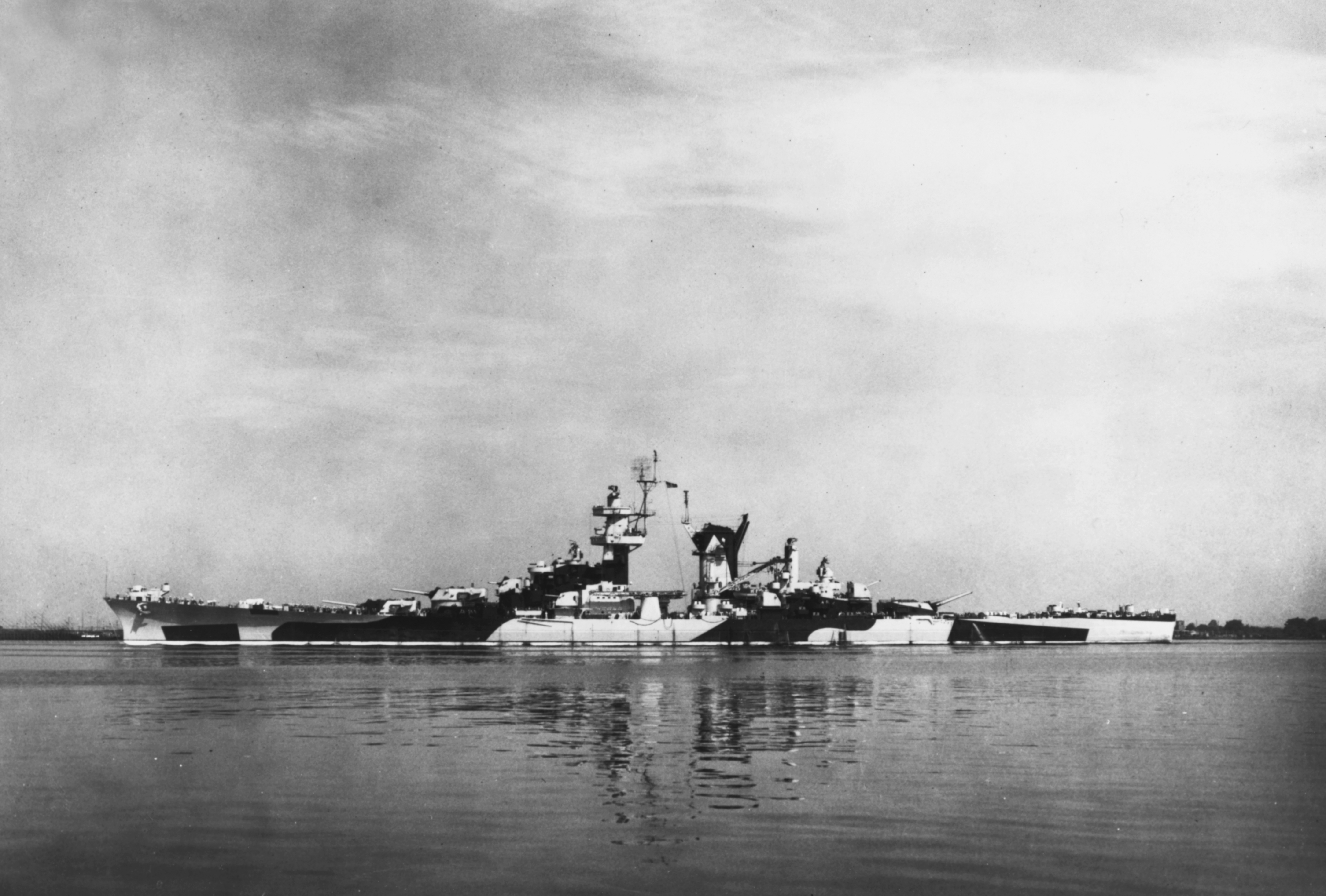 The U.S. Navy large cruiser USS Alaska (CB-1) off the Philadelphia Naval Shipyard, Pennsylvania (USA), on 30 July 1944. She wears Camouflage Measure 32, Design 1D.